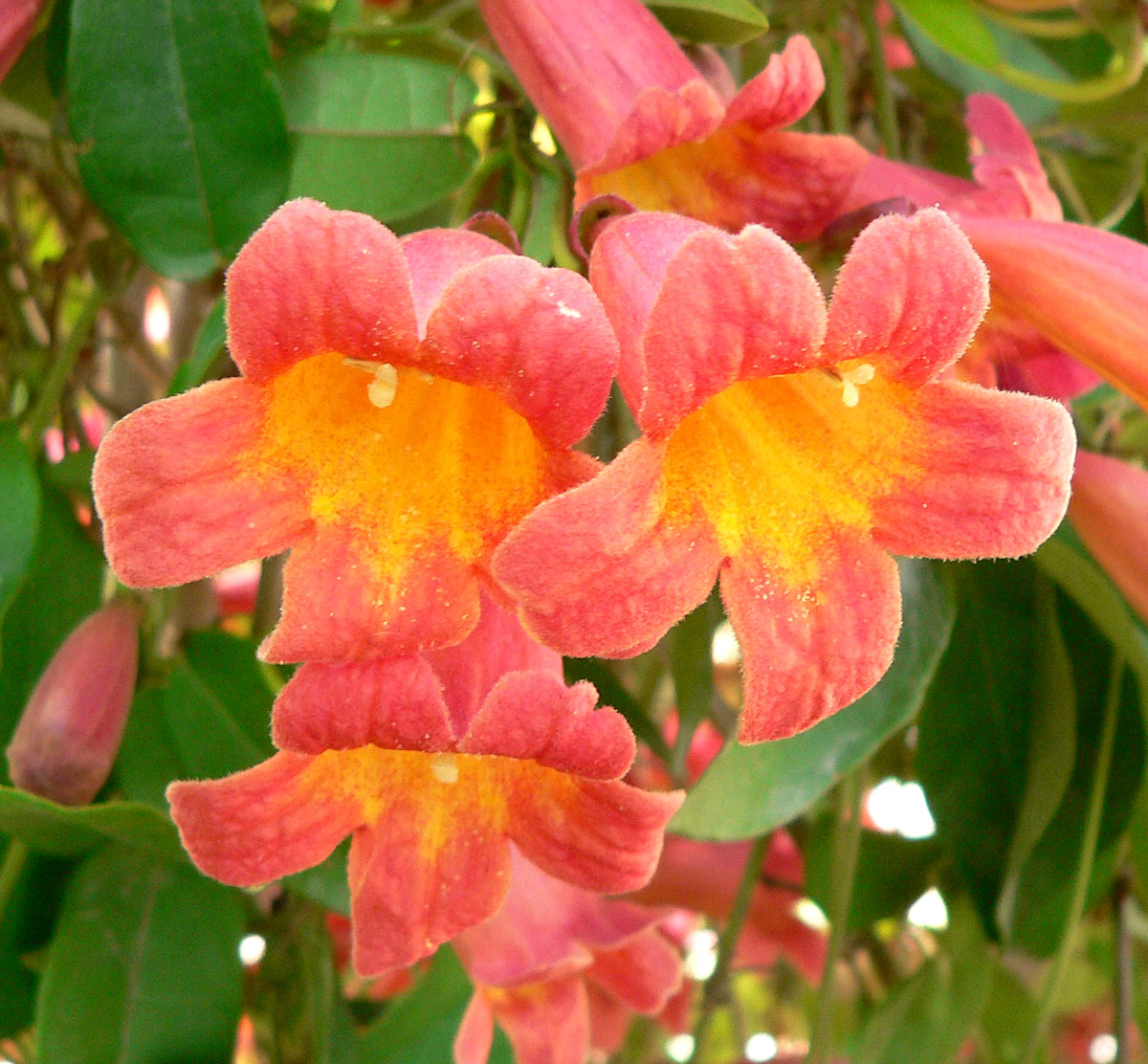 Bignonia capreolata at the Springs Preserve garden, Las Vegas, Nevada